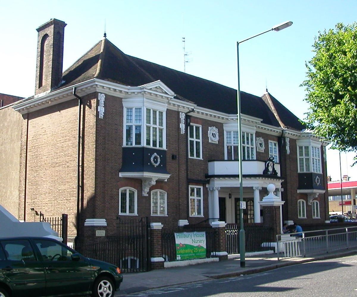 Ralli Hall, 81 Denmark Villas, Hove, City of Brighton and Hove, England. Built as the church hall of All Saints Church in 1913; now a multipurpose community facility owned by the Brighton & Hove Jewish Community group. Listed at Grade II by English Heritage (NHLE Code 1298671)